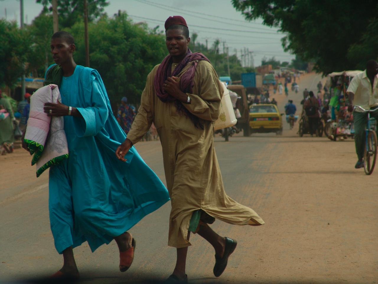 Men cross a busy street in Kayes, Mali